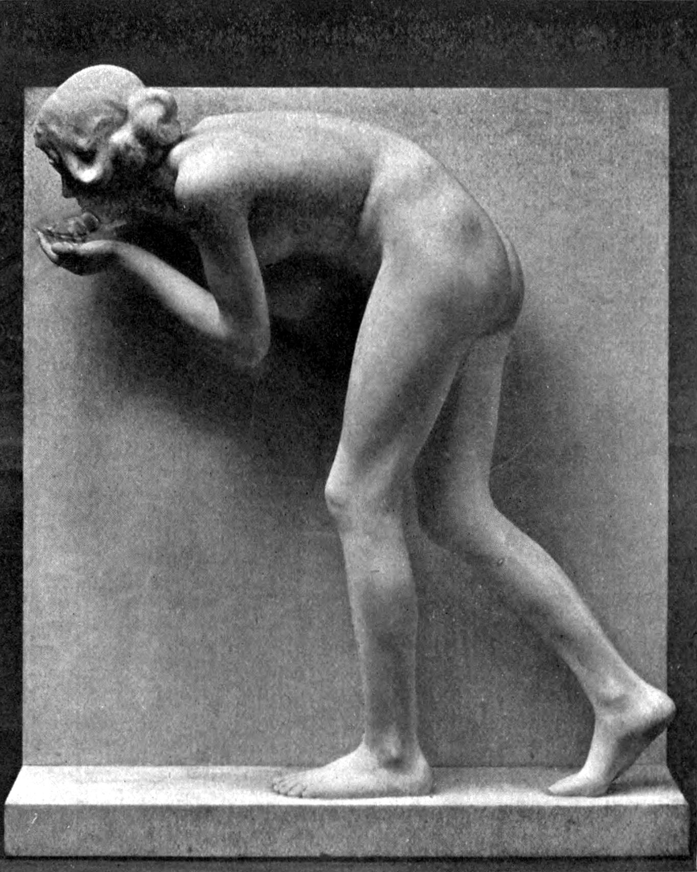 On the spring